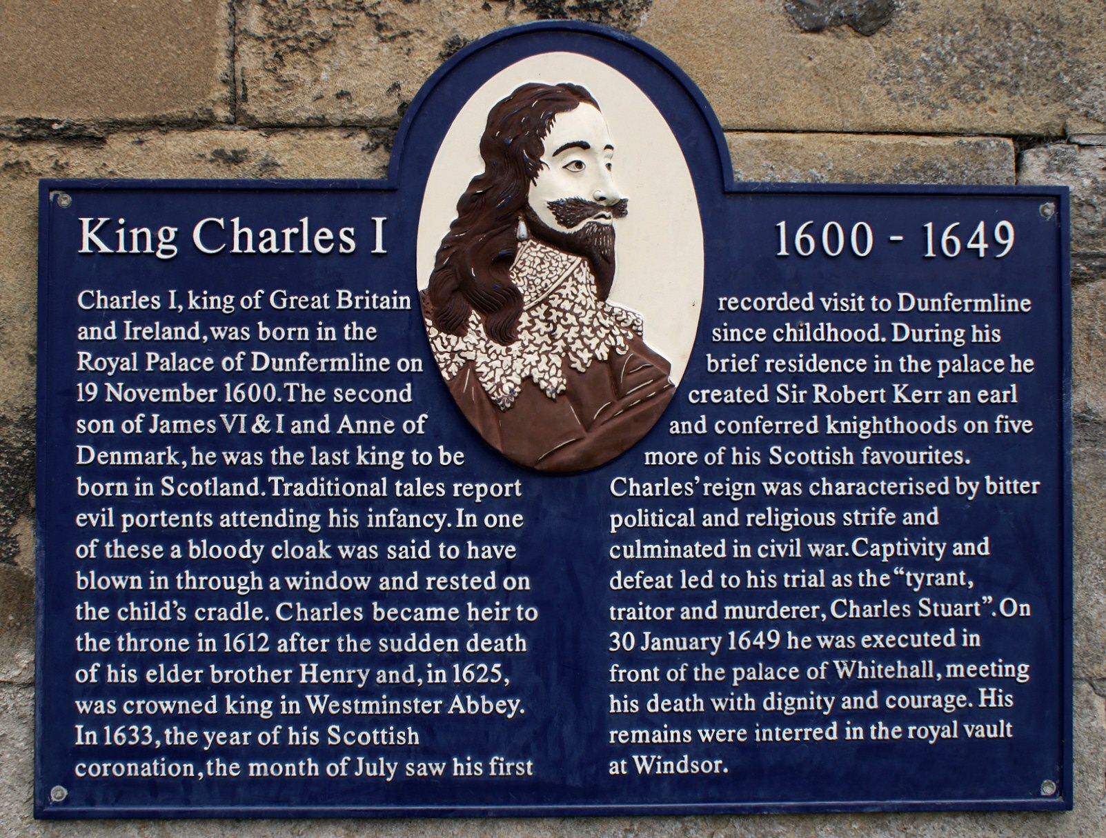 Dunfermline Palace commemorative plaque for King Charles I 1600 - 1649. The plaque records that he was born in the Royal Palace of Dunfermline on 19 November 1600.